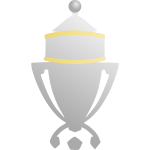 FFA Cup